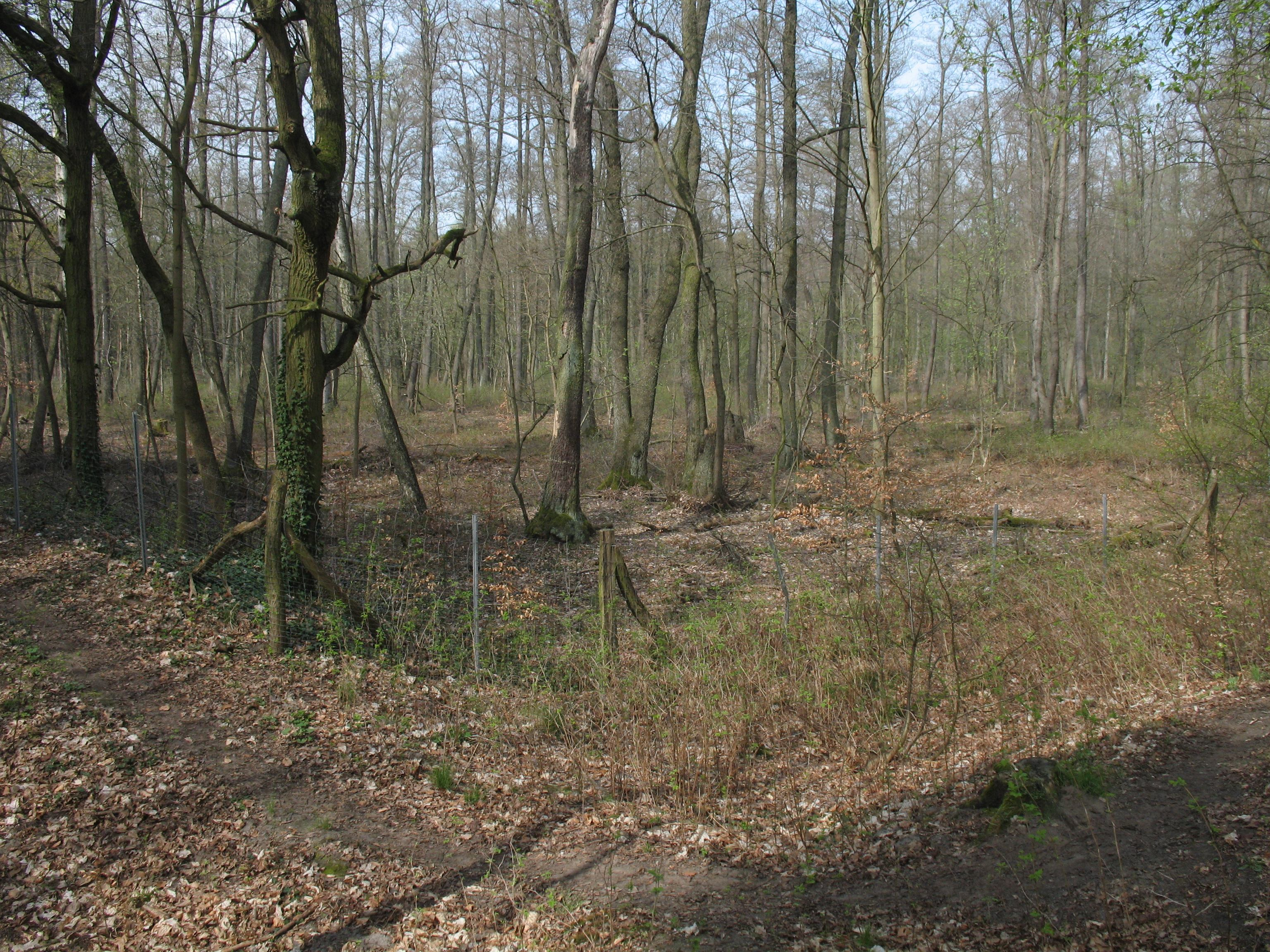 Former duck catching complex in Schwielowsee-Geltow in Brandenburg, Germany